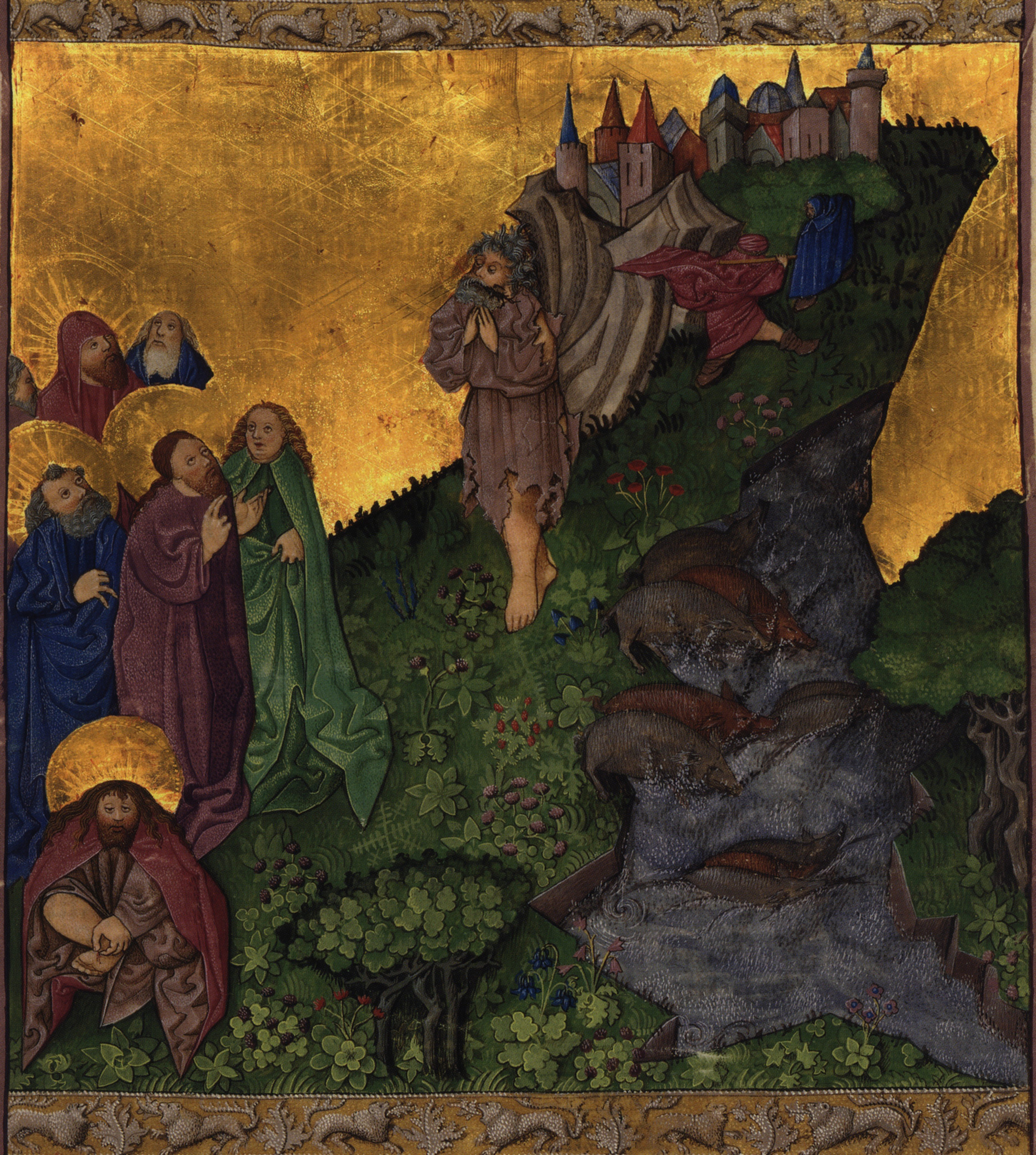 Page 51r: Healing of the demon-possessed, Mk 5:1-20